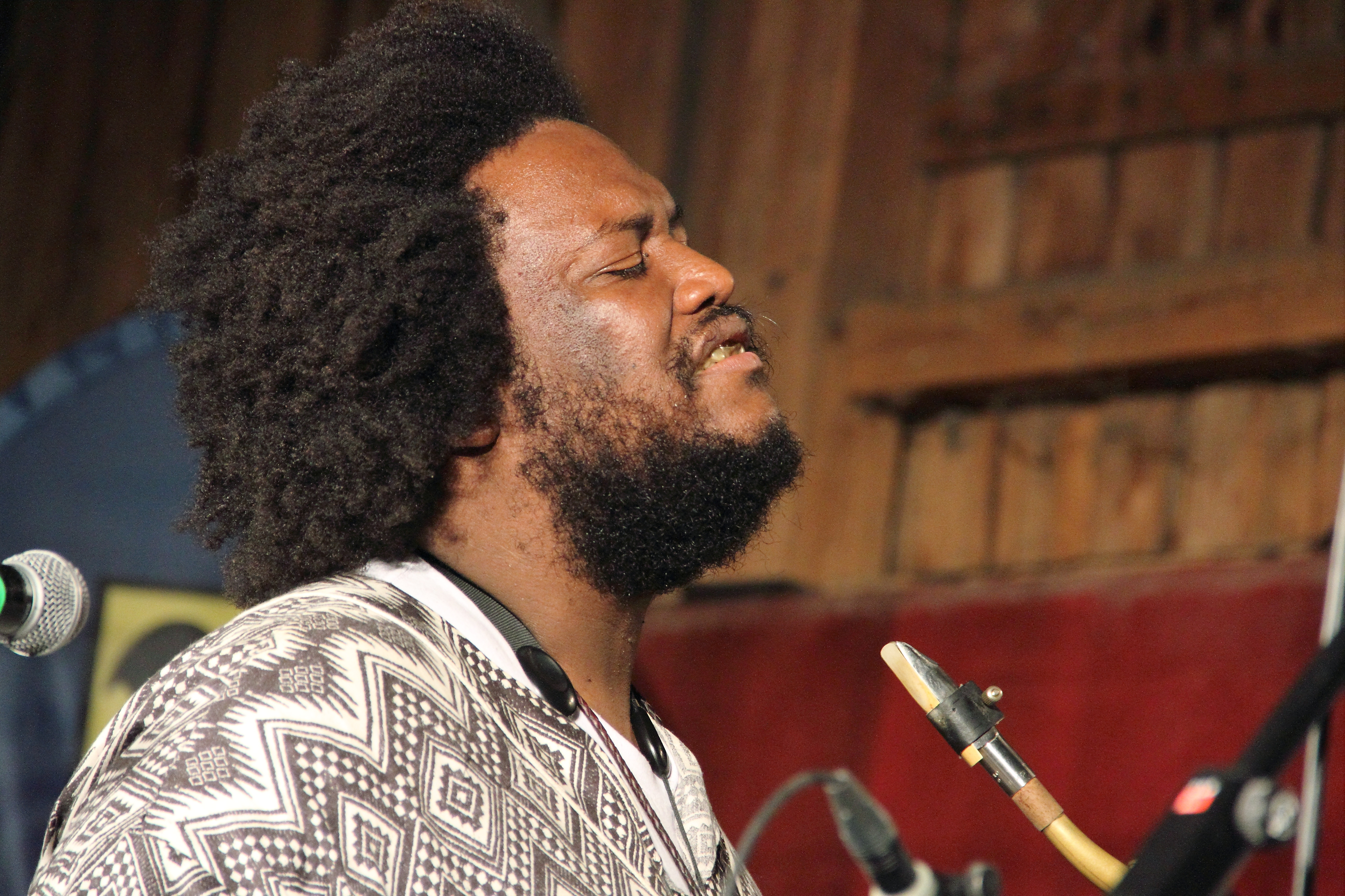 Kamasi Washington & Band at INNtöne Jazzfestival 2018.